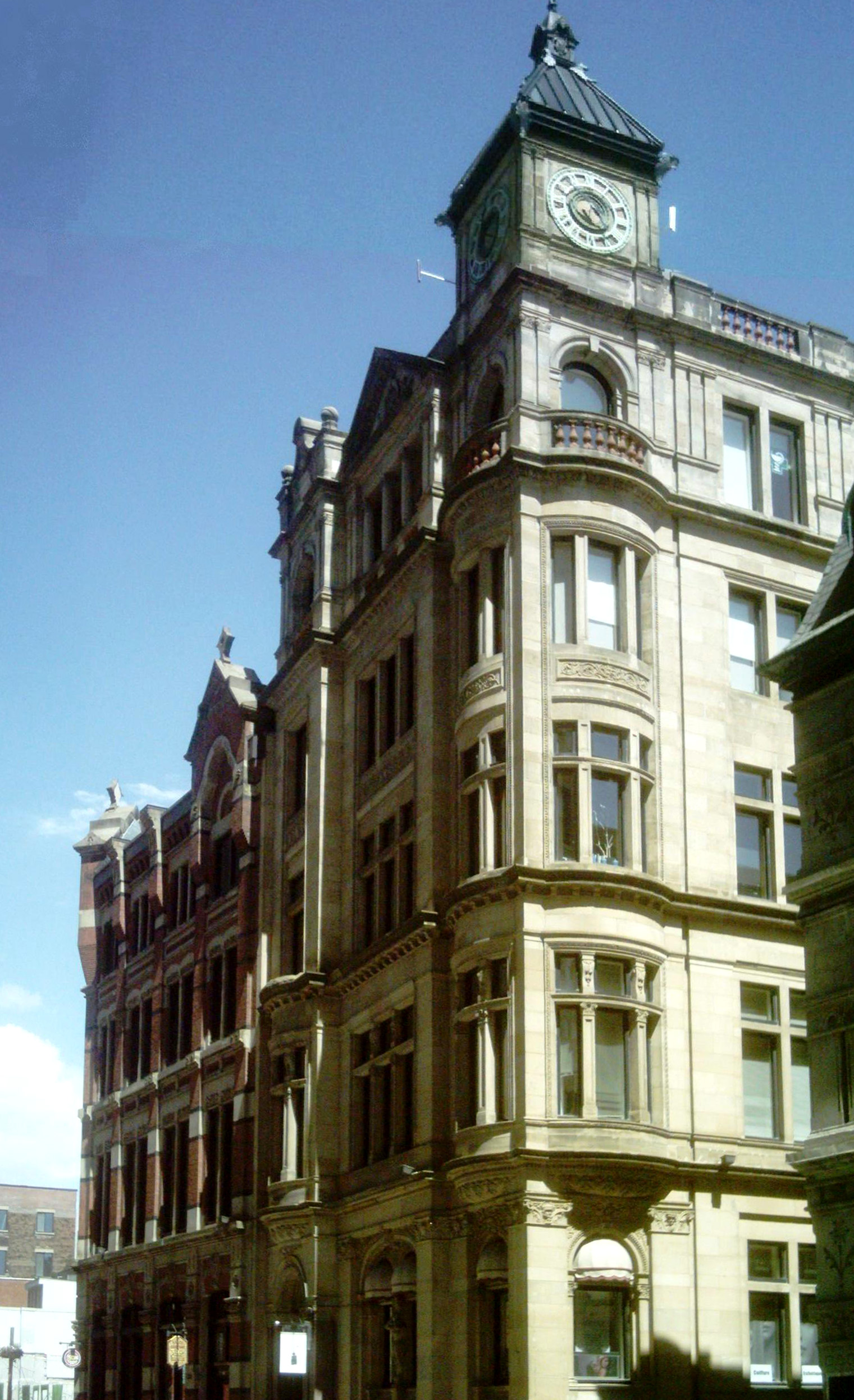 Old Sun Life building, on Notre-Dame street, Montreal